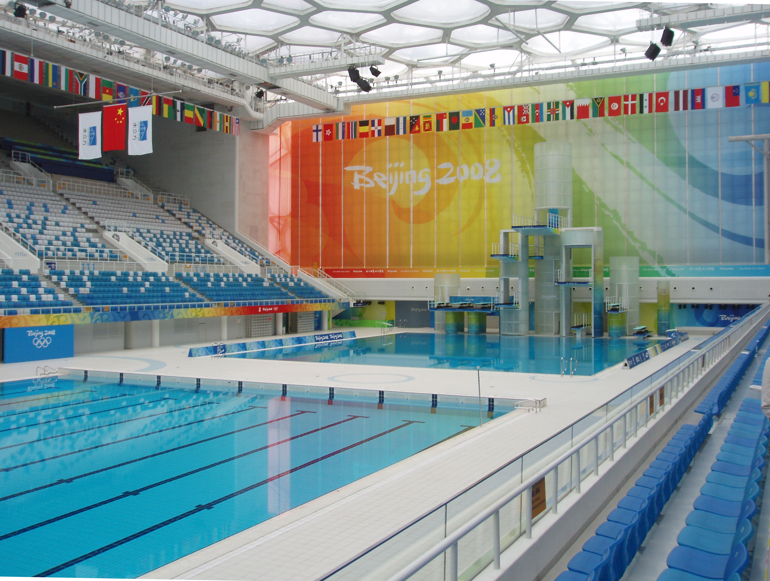 Inside Beijing National Aquatics Centre